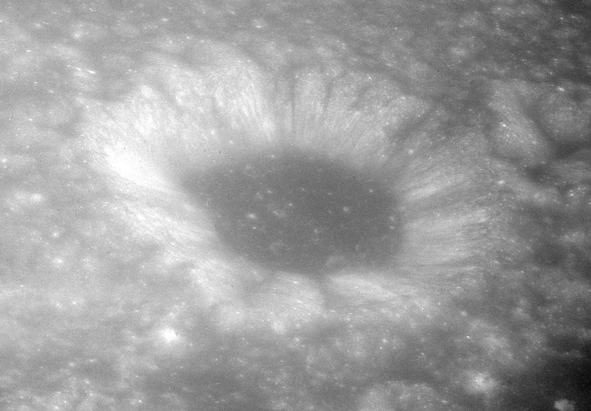 Oblique view facing west of Townley, on the moon.